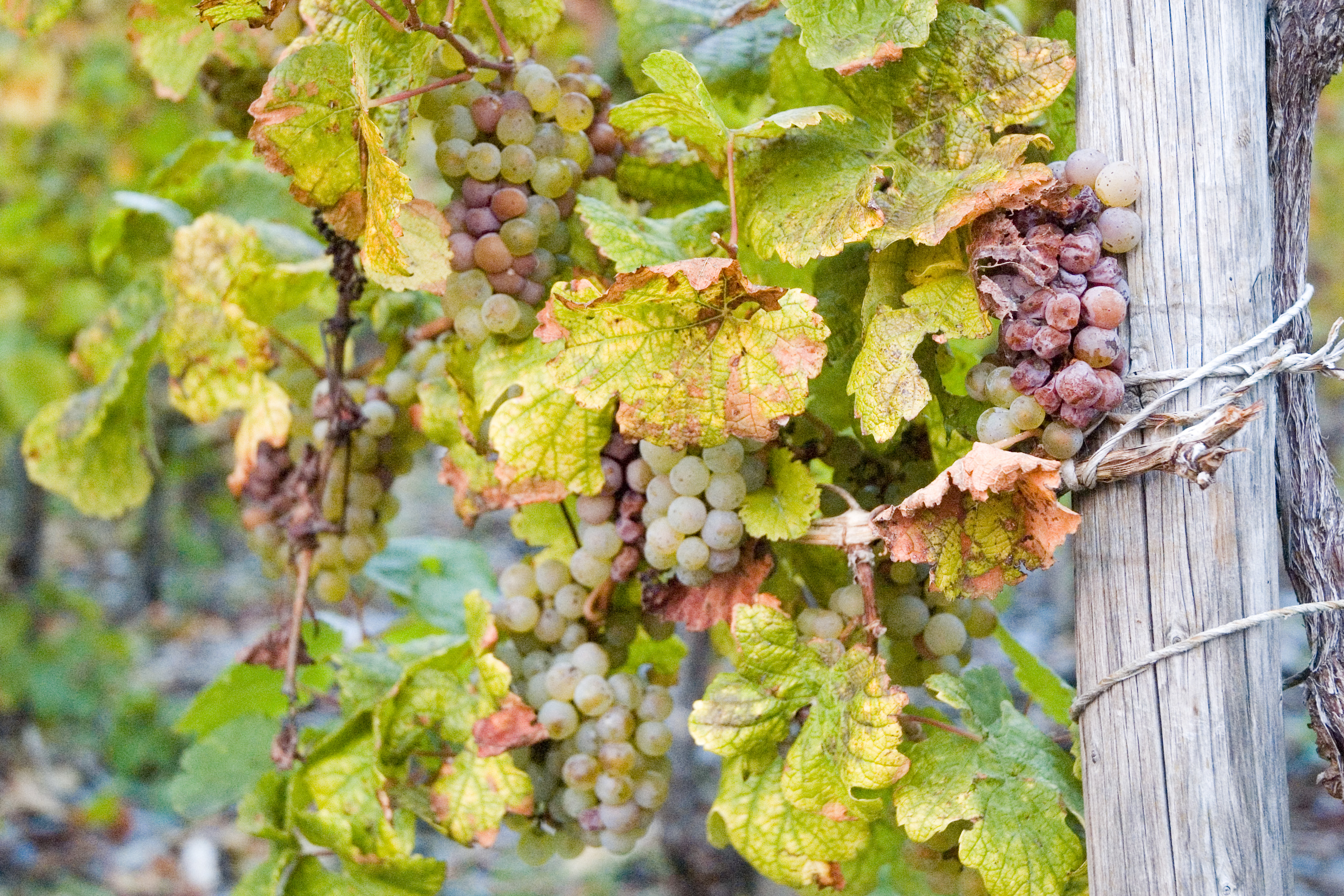 Riesling grapes showing signs of botrytis in the German wine region of Rhineland-Palatinate